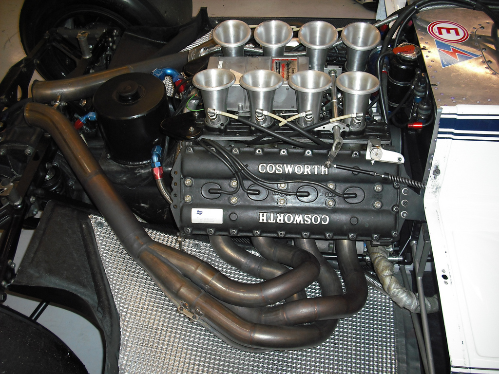 Cosworth V8 F1 engine